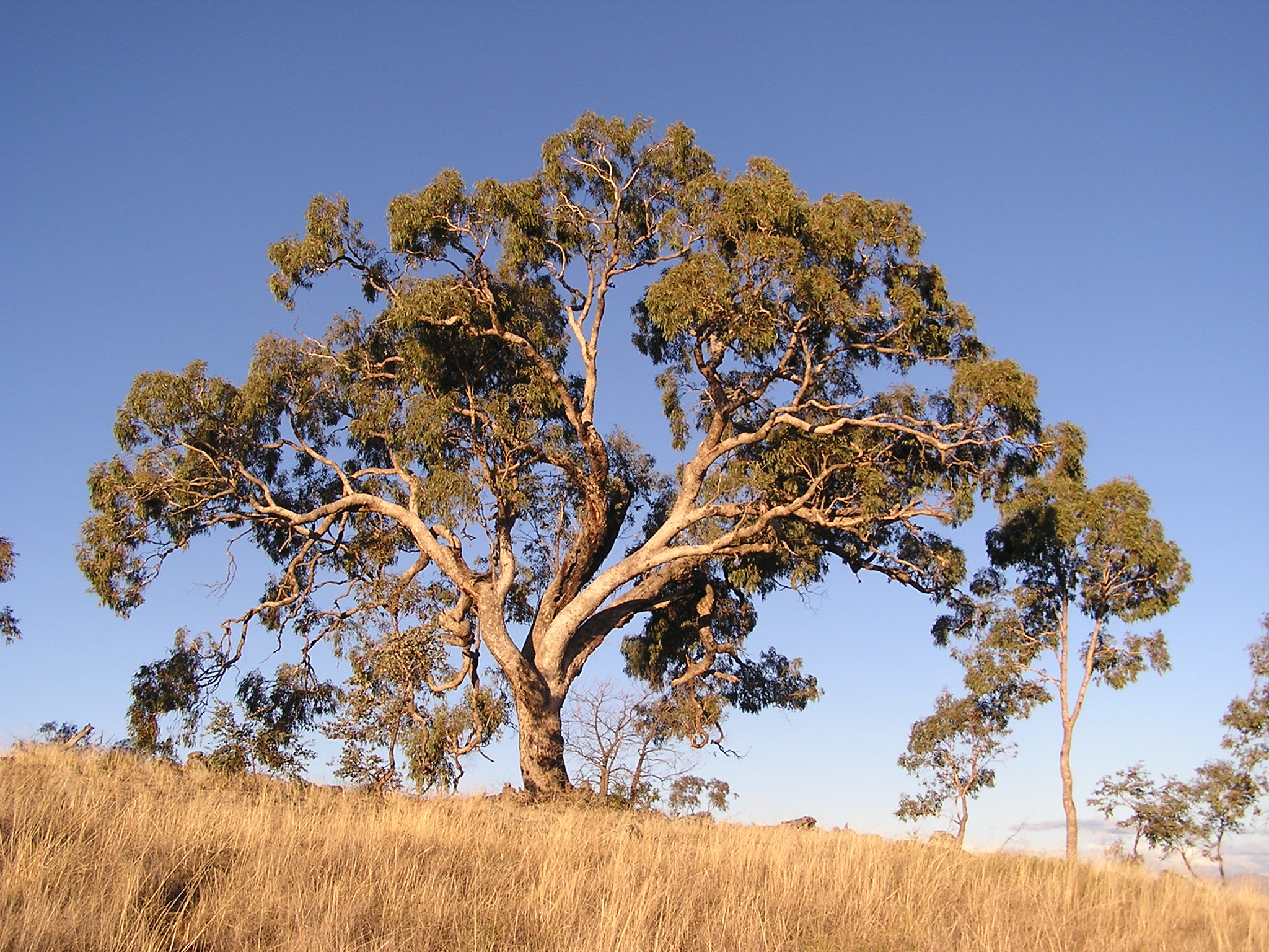 Eucalyptus bridgesiana (Apple box ) tree photographed on Red Hill, Australian Capital Territory. Family: Myrtaceae Origin/Habitat: NSW to NE Vic, and Gippsland. Foliage: Adult leaves 12-24cm, tapering to a fine point, green both sides, veins widely spaced. Juvenile leaves heart-shaped and stalkless, margins crenulate, grey green in colour. Flowers: Jan-May. White in colour. Other features for identification: Greyish in colour, scaly or short-fibred on trunk and large branches. Fruit 6-8mm in diameter, 3-4 triangular valves The leaves are the colour of brownish orange